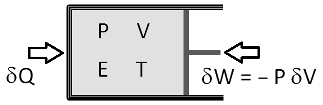 Pressure, Energy, Volume, and Temperature are state variables. Work and heat are not